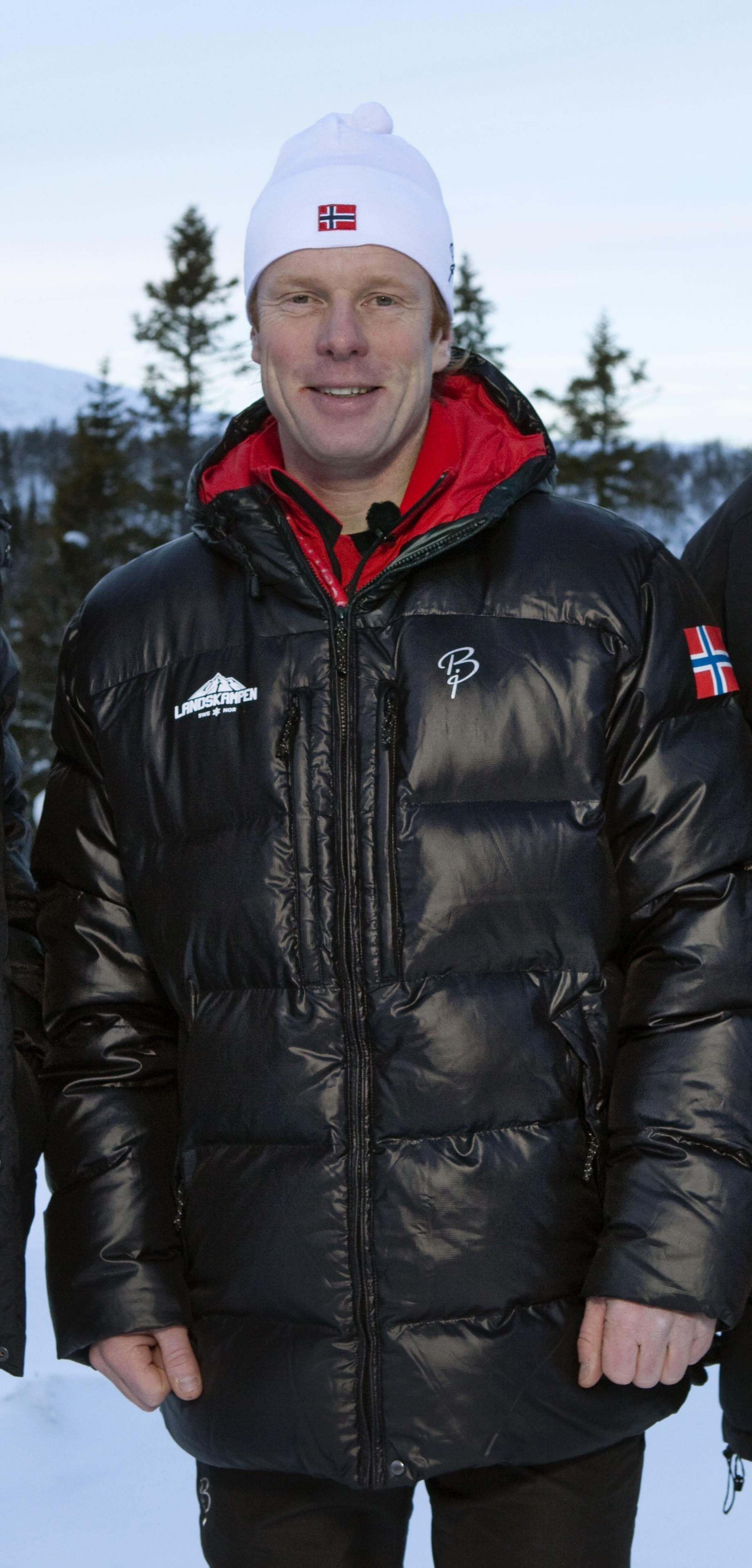 Norwegian cross-country skier Bjørn Dæhlie.